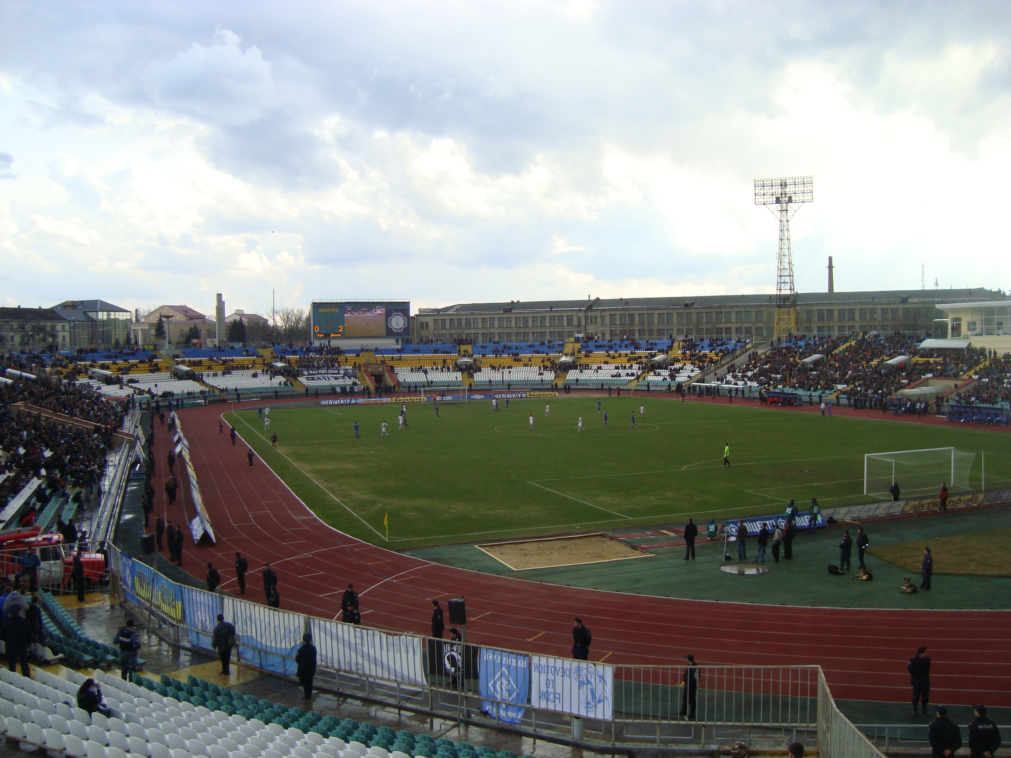 Avanhard Stadium in Luhansk